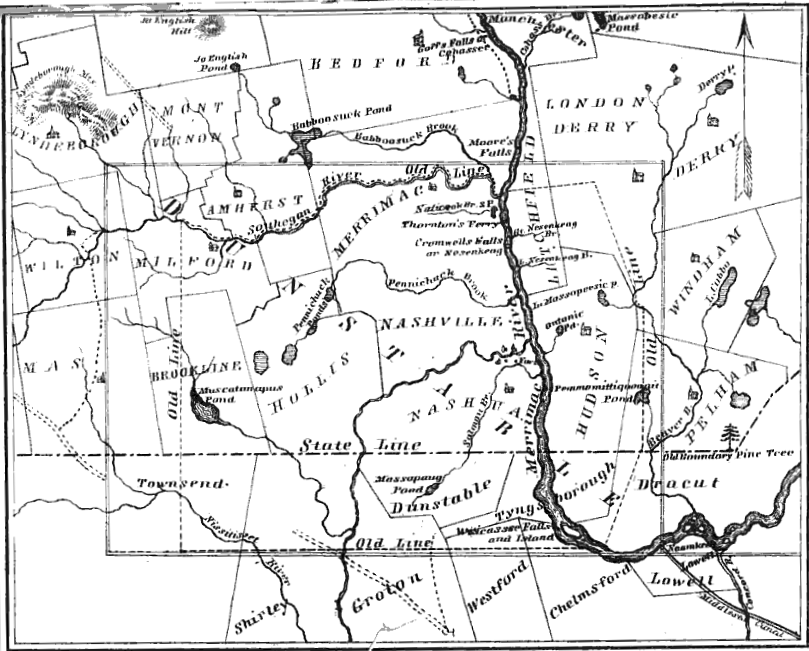 Map of old Dunstable, 1846. Page 14-15 of book History of the old township of Dunstable: including Nashua, Nashville, Hollis, Hudson, Litchfield, and Merrimac, N.H.; Dunstable and Tyngsborough, Mass. by Charles James Fox, 1846 on Google books